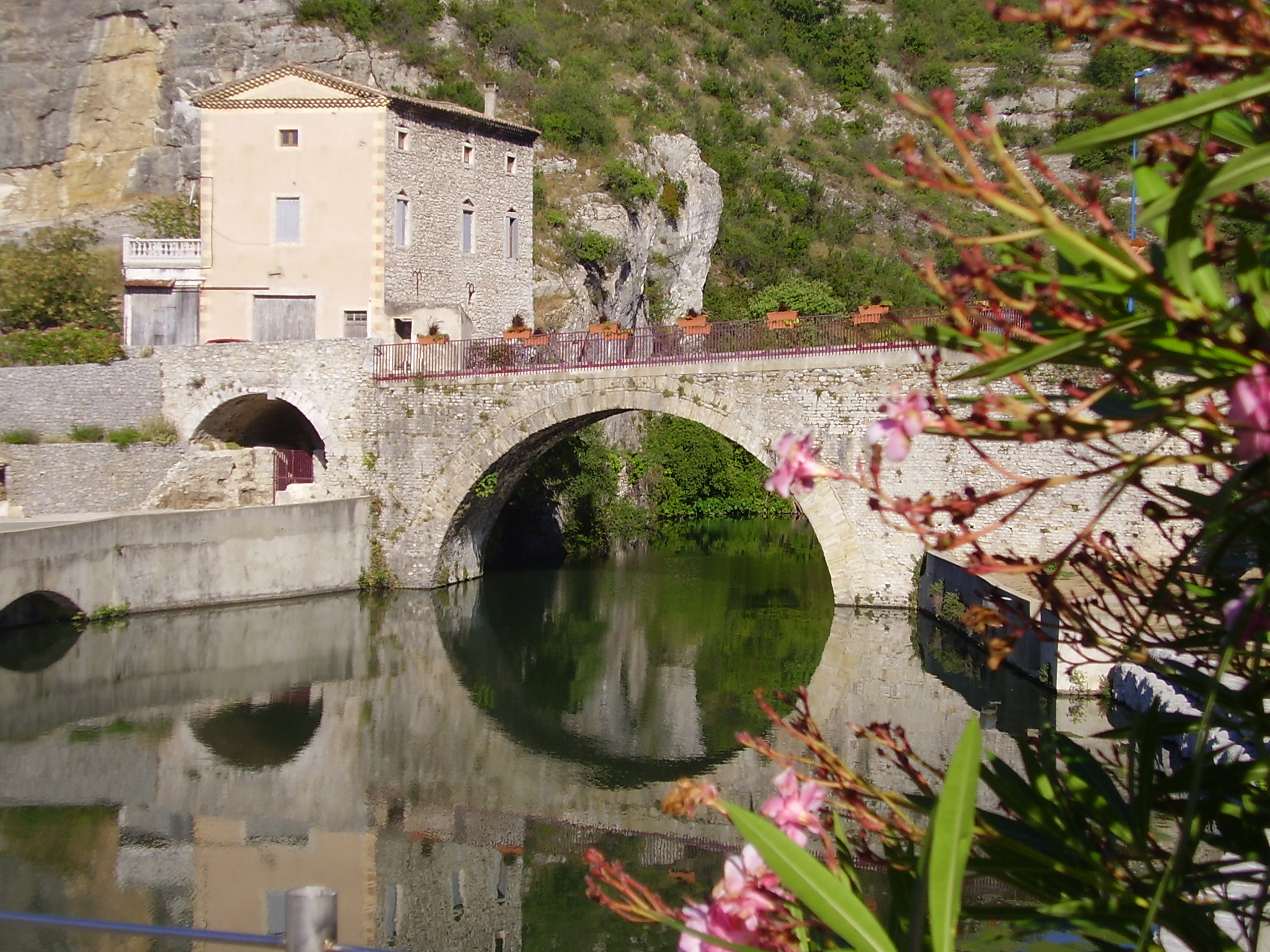 Roman bridge on the river Ouvèze at Le Pouzin